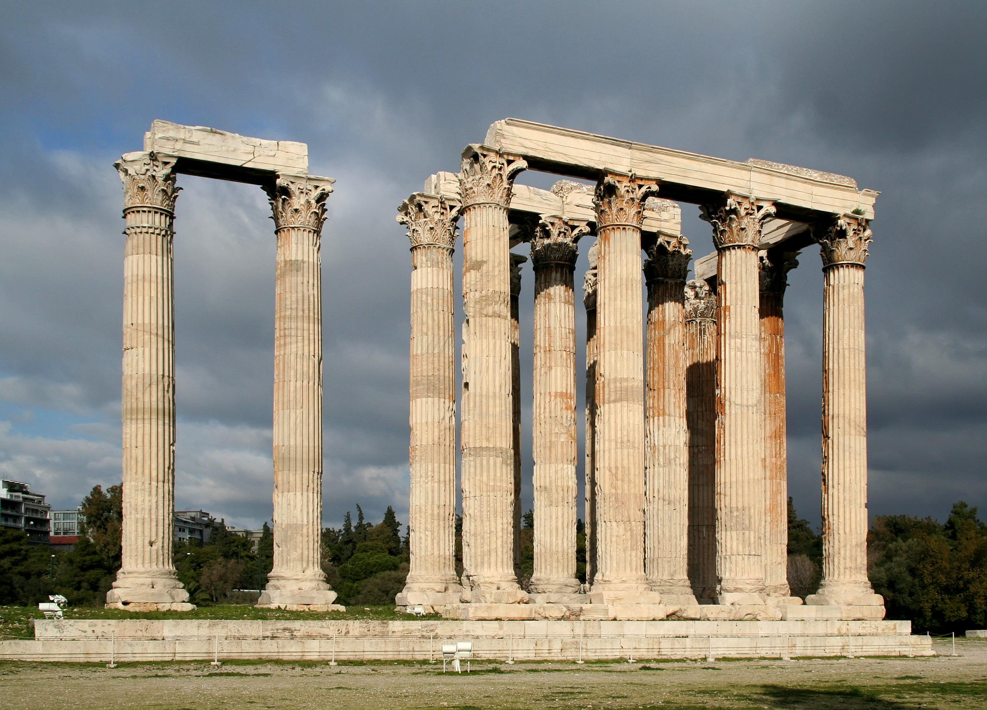 The remaining structure of The Temple of Olympian Zeus at Athens. It had been cloudy all day, and with the clouds gathering to the East, the sun came out from the West to Illuminate the stone.